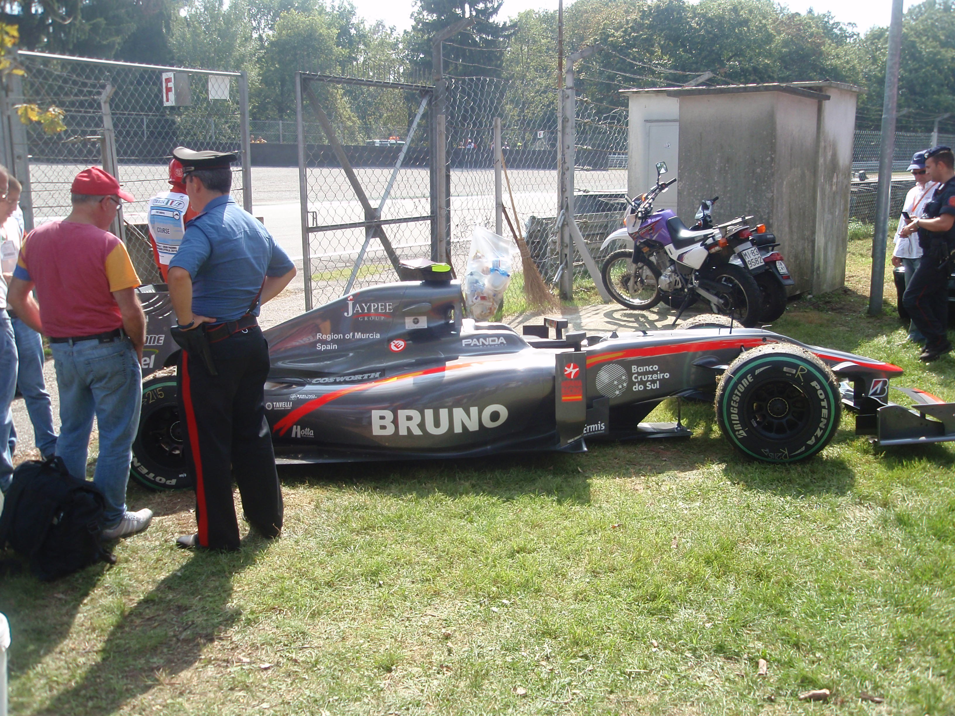 Bruno Sennas HRT after his retirement in the race